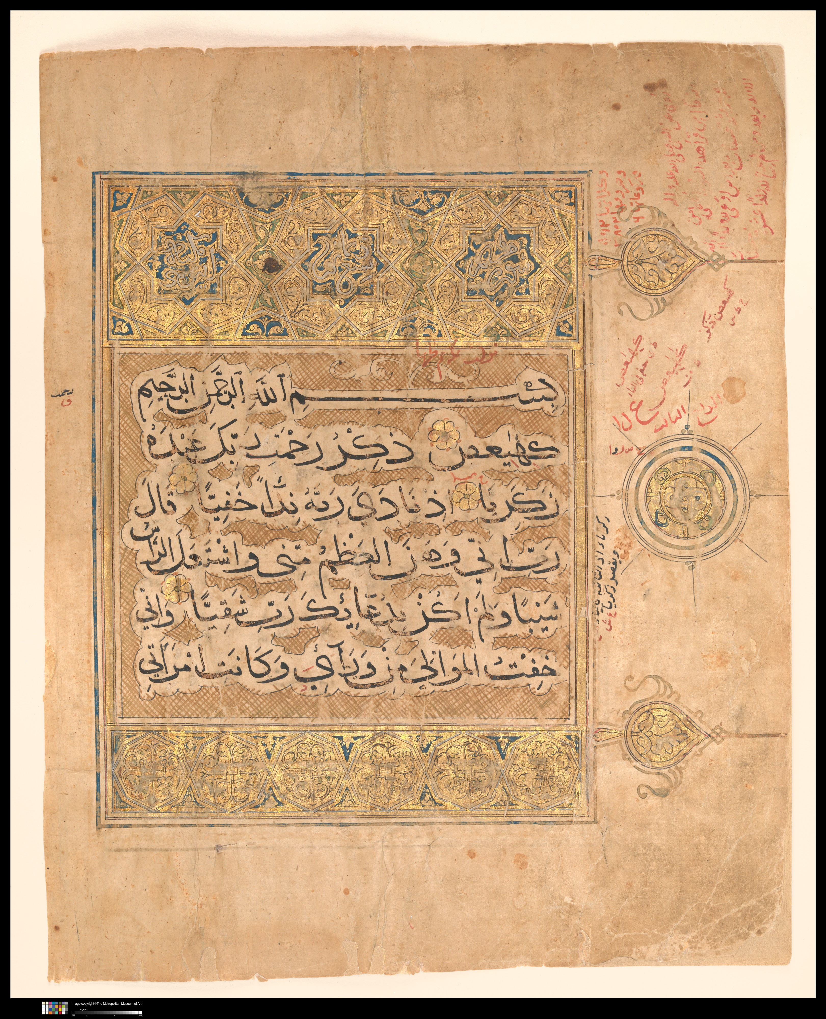 Folios from a non-illustrated manuscript; Codices